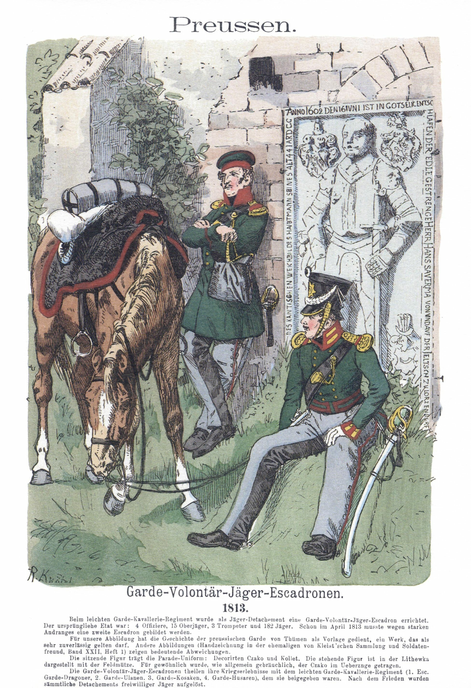 Preußen: Garde-Volontär-Jäger-Escadronen. 1813